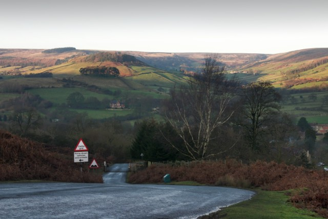 Chimney bank view The view looking North over Rosedale Abbey is reckoned to be one of the best in Yorkshire.